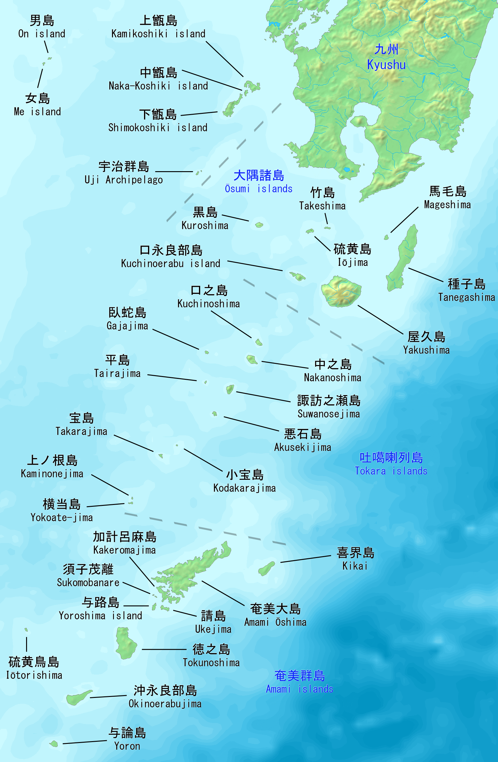 Map of the Satsunan Islands of Kagoshima, Japan. Made with DEMIS World Map Server.